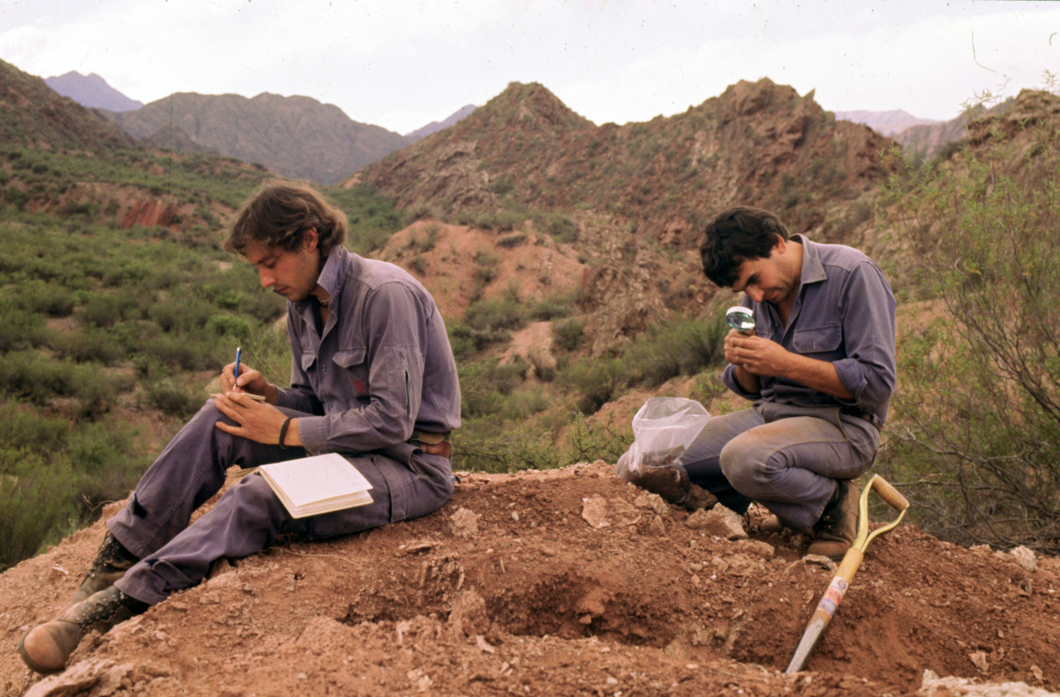 Miguel Pérez y Raúl García, tomando notas durante jornadas de trabajo en la comisión geológica Nº 3, YPF S.E. Circa 1991.